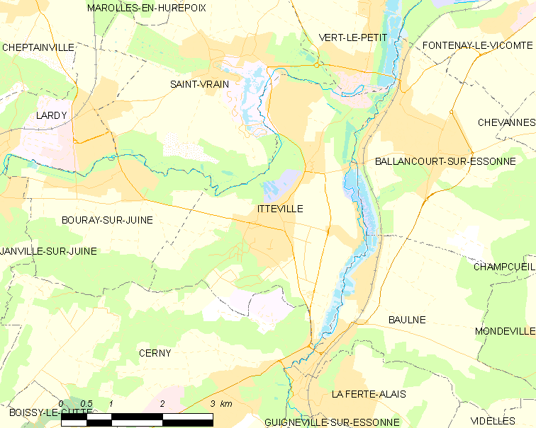 Map of French municipality Itteville